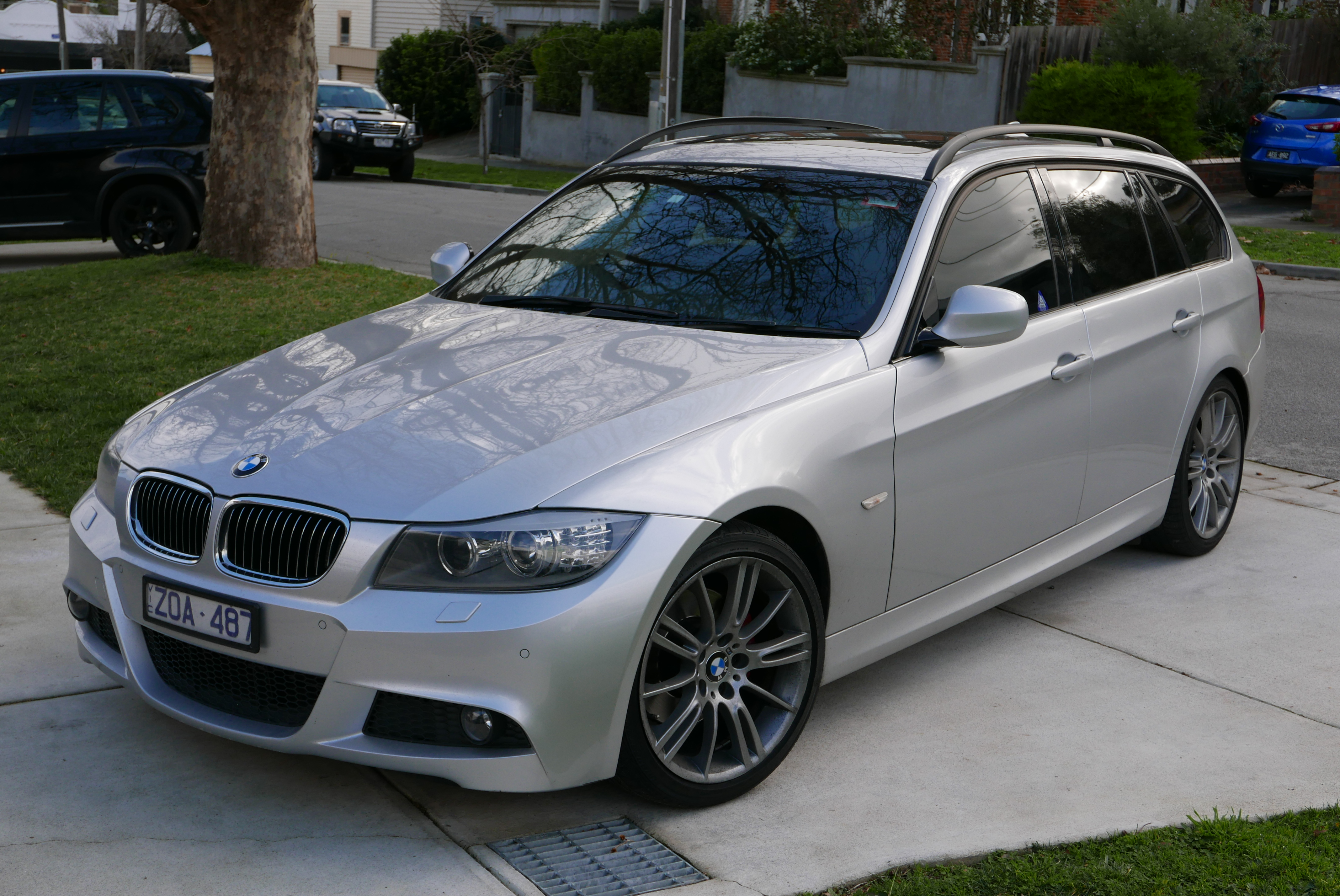 2010 BMW 323i (E91 MY10.5) Lifestyle Touring station wagon. Photographed in Ivanhoe, Victoria, Australia. Vehicle registration enquiry results Jurisdiction Victoria Registration ZOA487 Chassis code WBAUT52000A699642 Engine code 07027306N52B25AE Compliance date 2010-04 Year of manufacture 2010